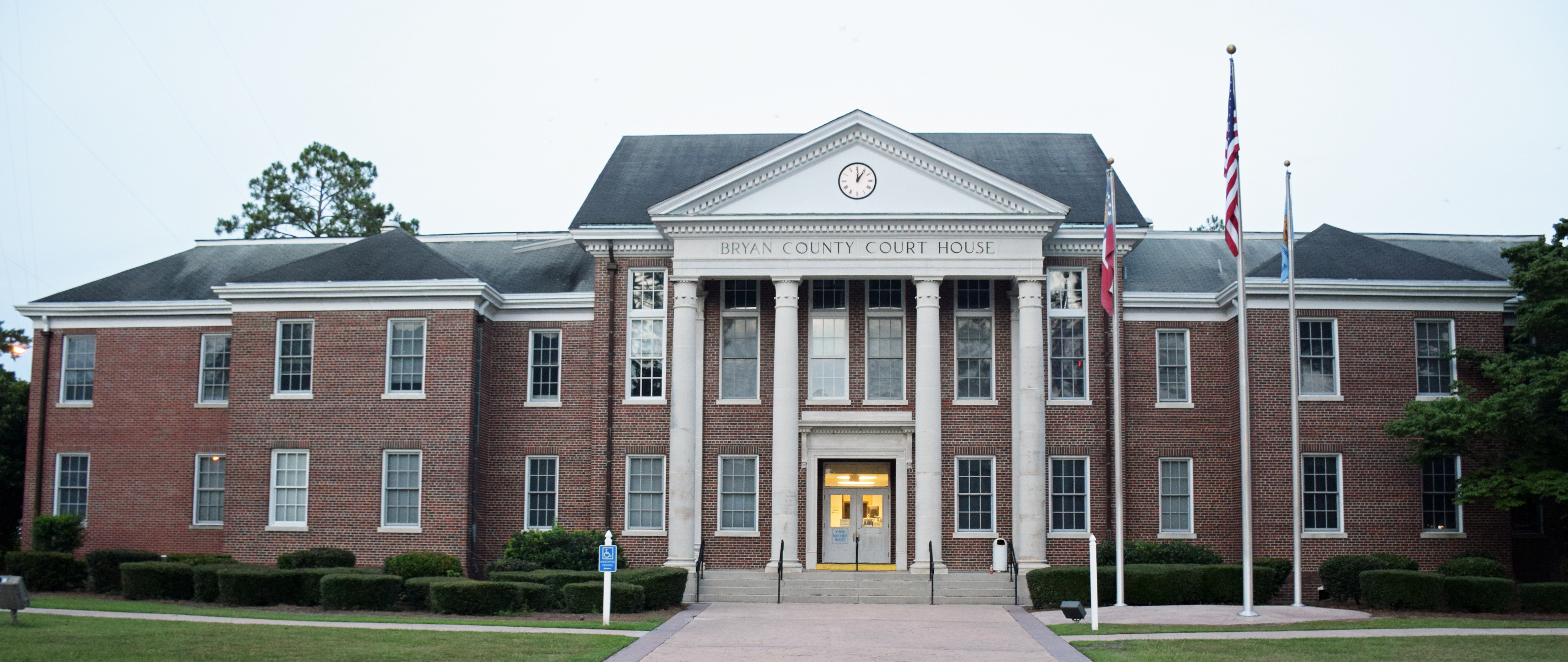 Bryan County Courthouse, from College Street in Pembroke, GA